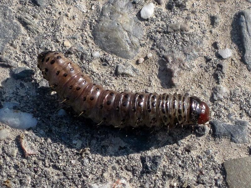 Apamea lithoxylaea (Light Arches) caterpillar, Arnhem, the Netherlands